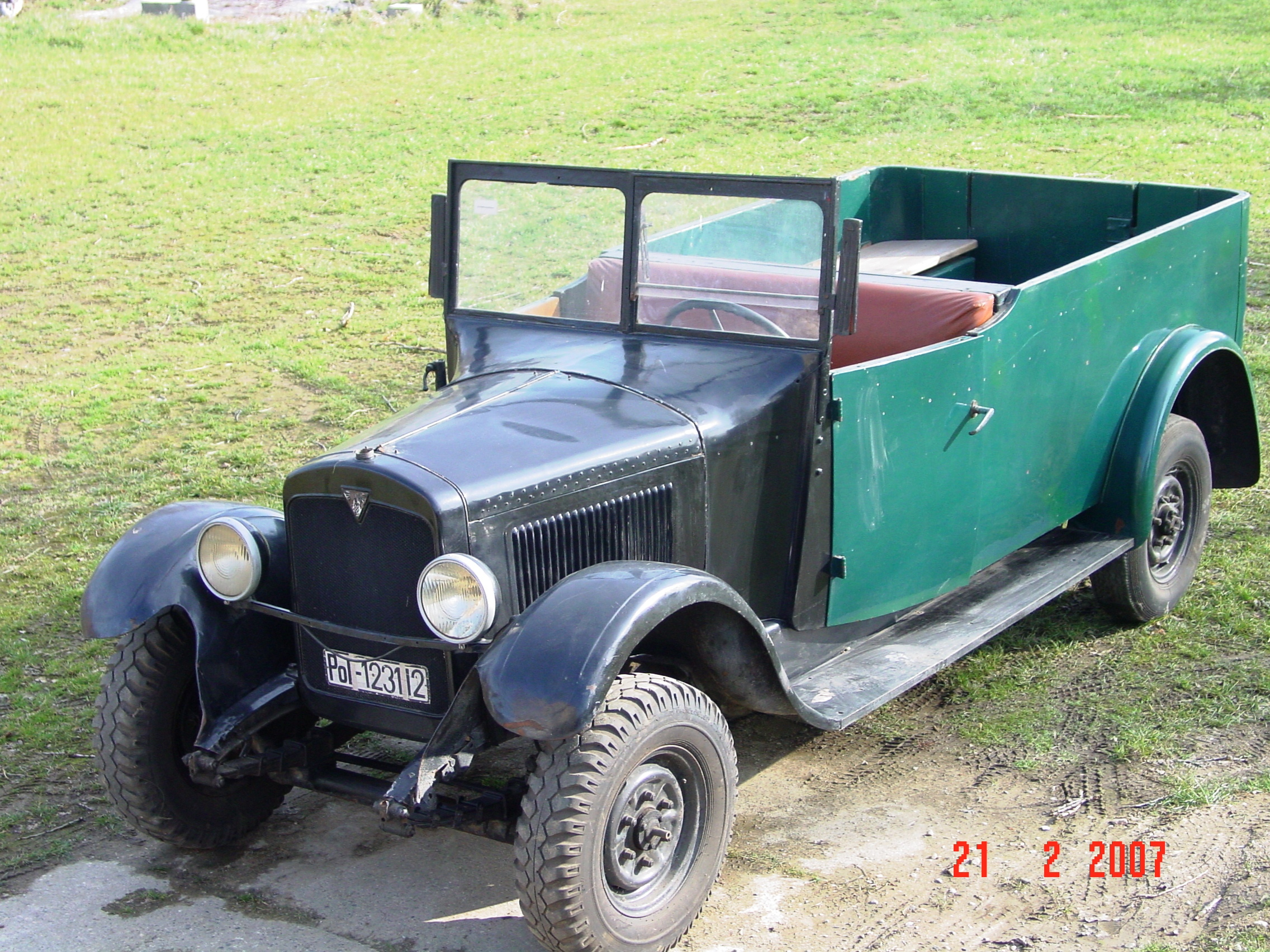 Adler Standard 6 from the former DEFA studios in Babelsberg